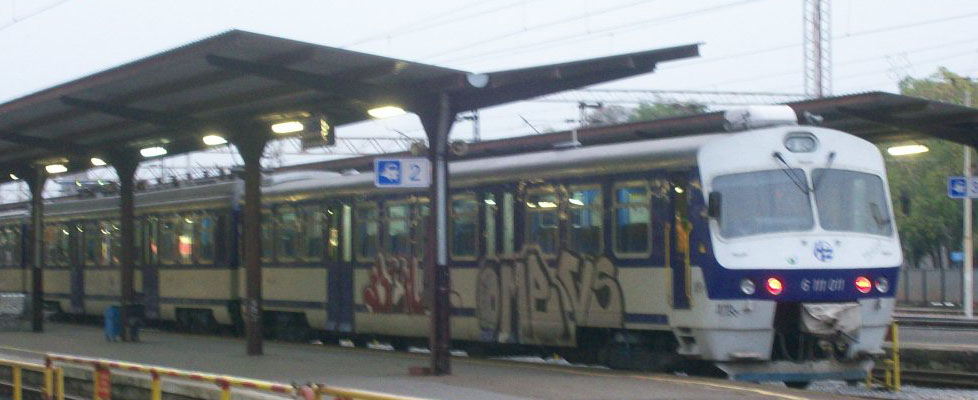 HŽ 6111 at Zagreb Main Station